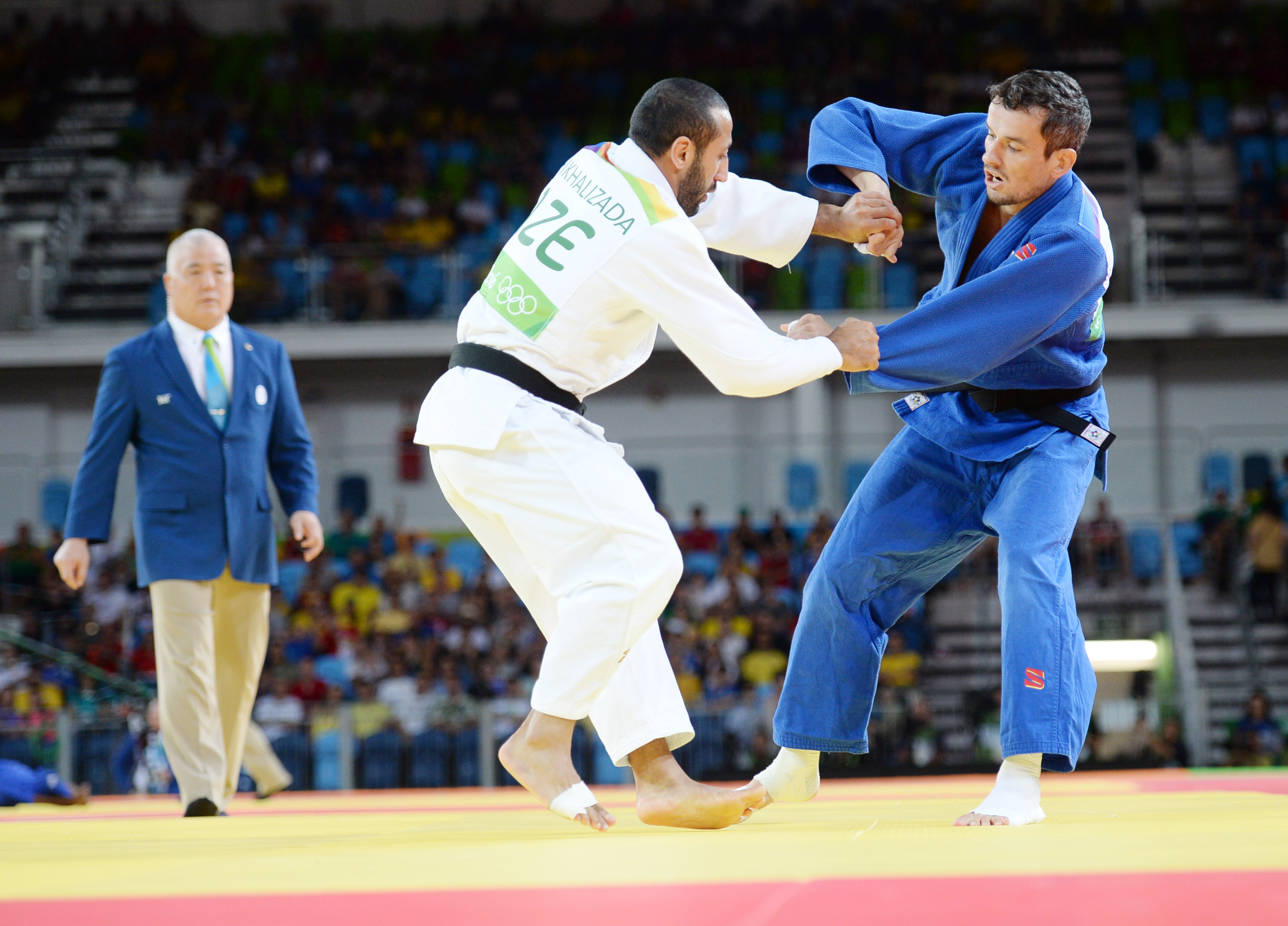 Judo at the 2016 Summer Olympics, Shikhalizade vs Uriarte